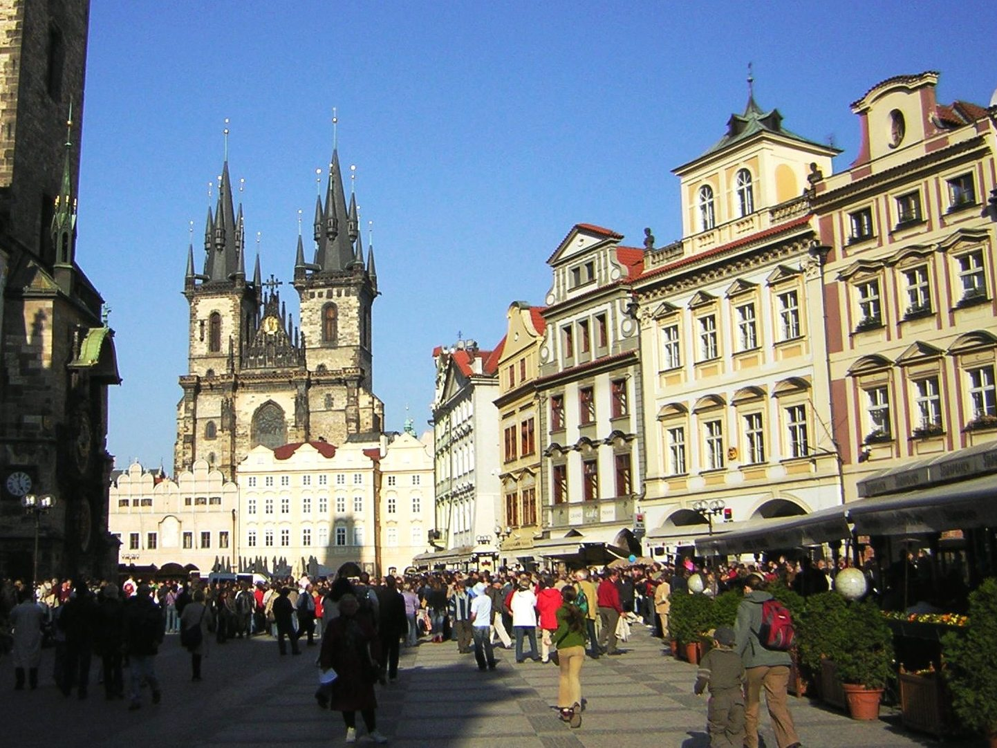 Old Town square from the west, from Minuta house